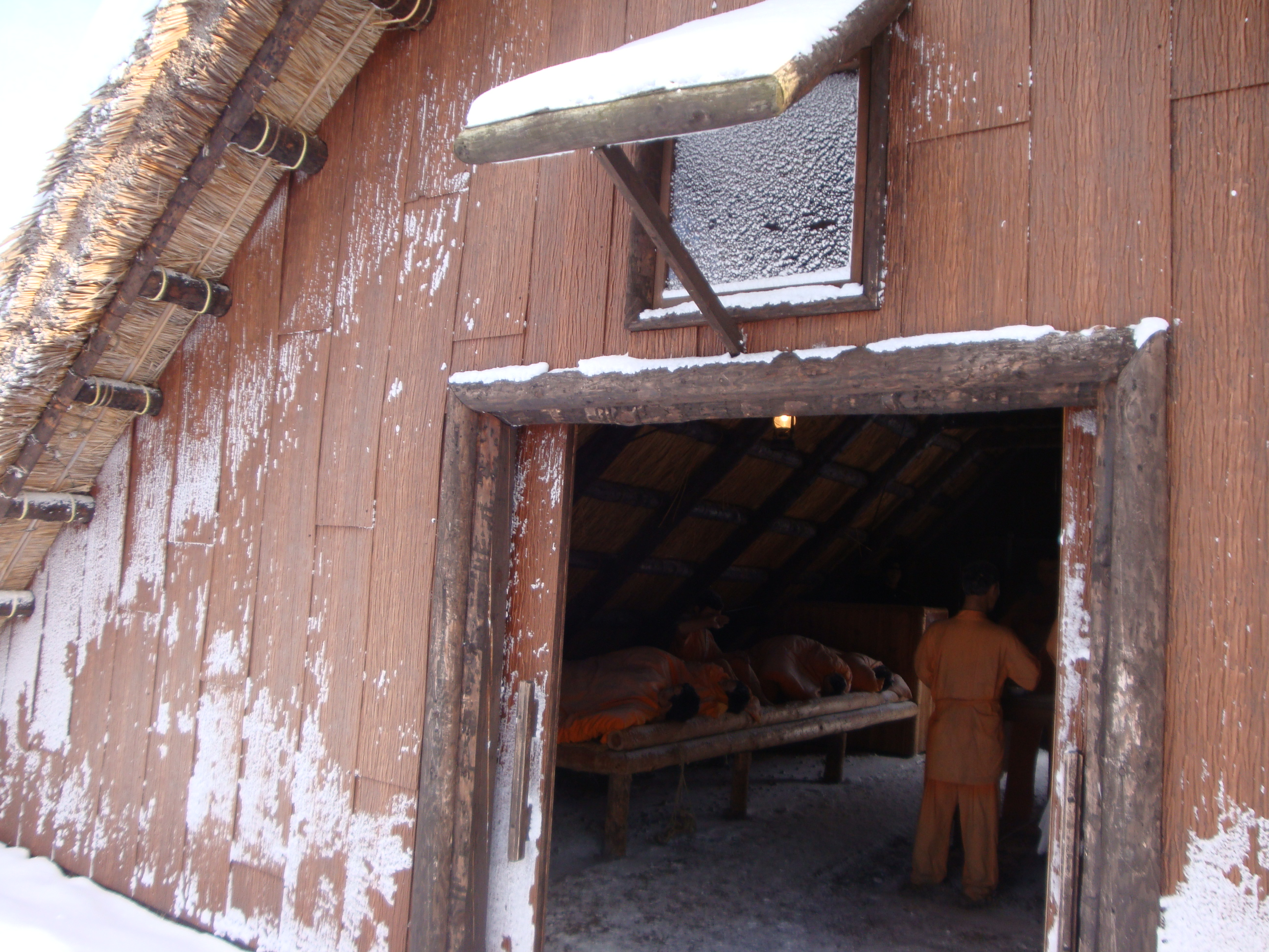 Place to Rest and sleep at Abashiri Prison Museum